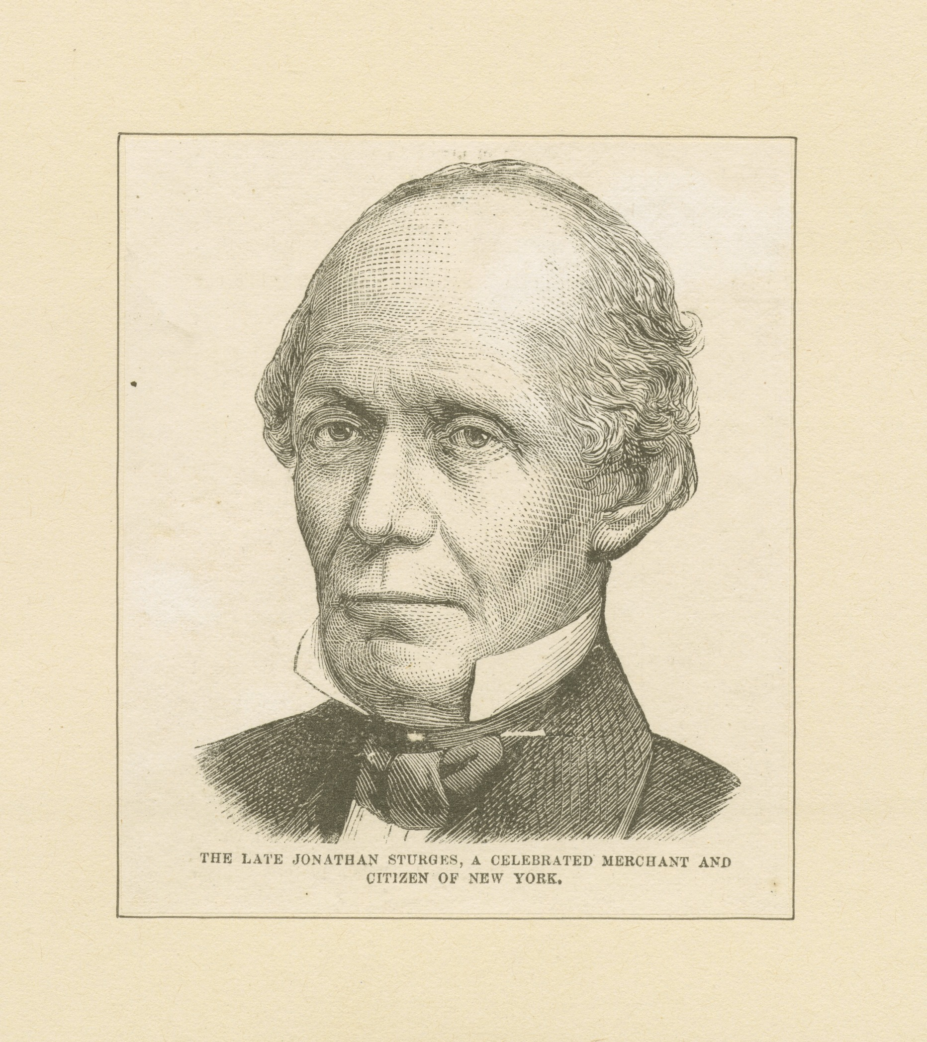 Title from Calendar of Emmet Collection. EM11782